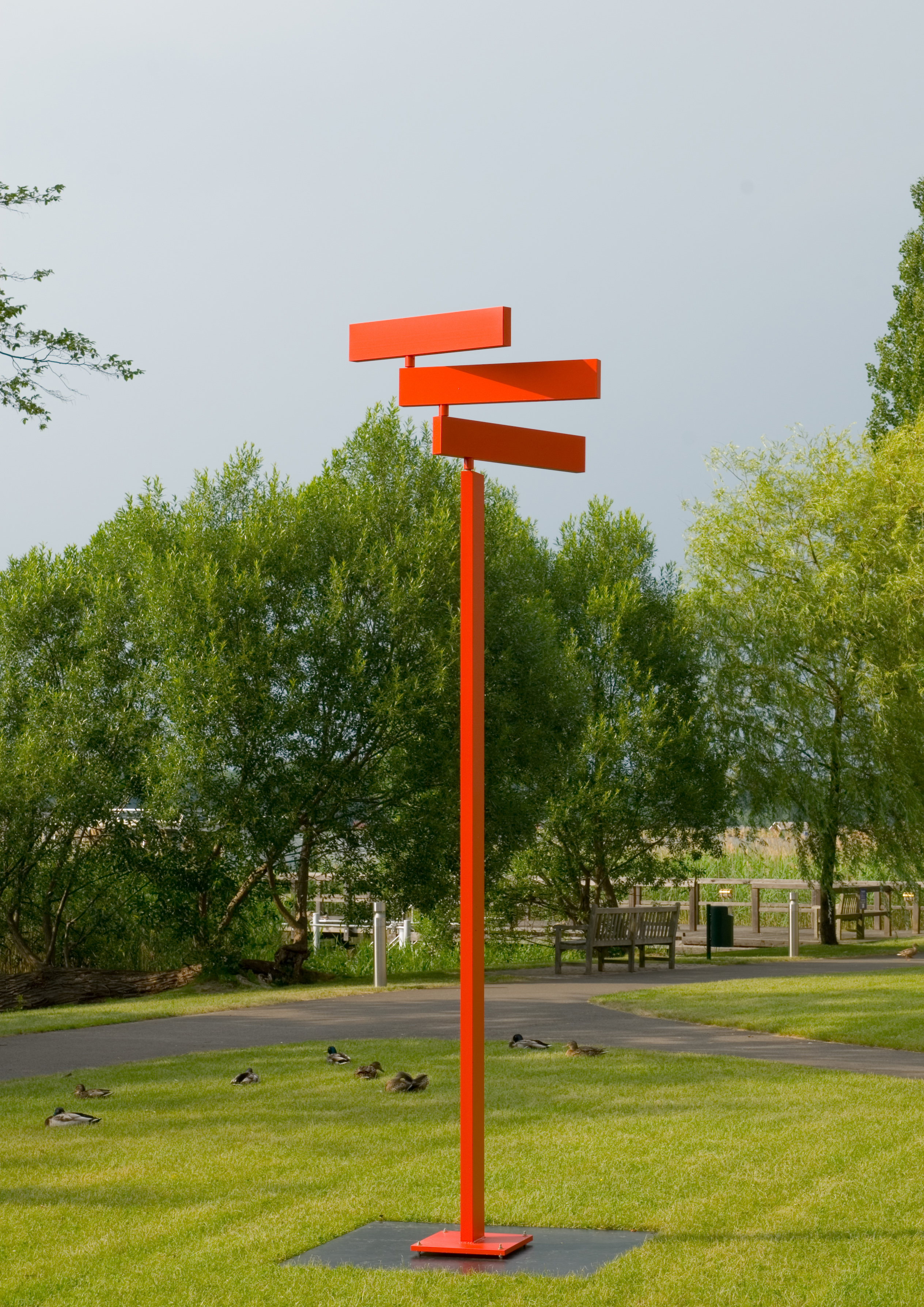 Kinetic sculpture WV205 by Michael Hischer in Germany